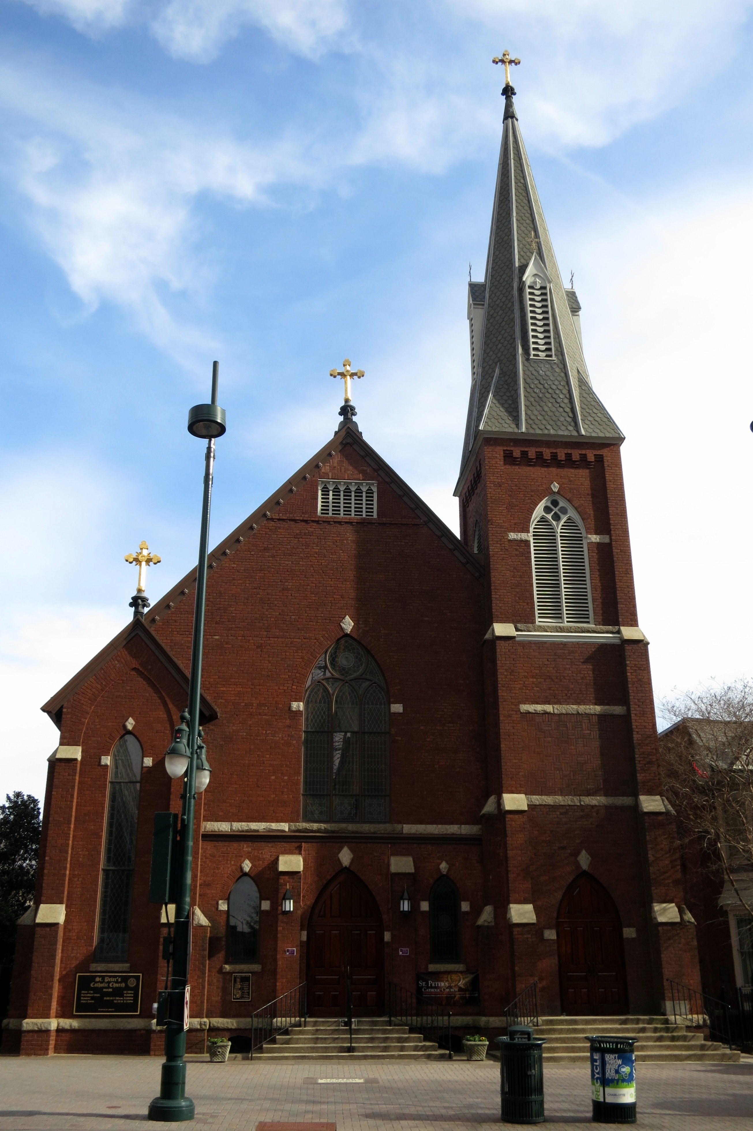 Saint Peter Catholic Church (Charlottle, North Carolina) - view from across S. Tryon Street